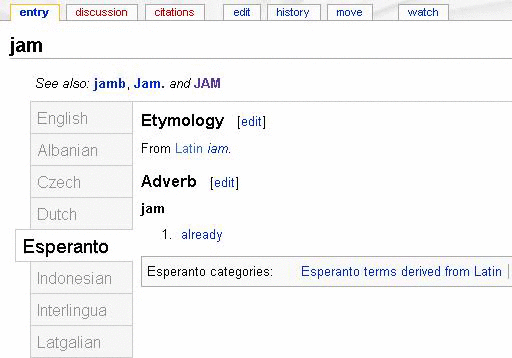 Language tabs on en wiktionary for the word "jam"